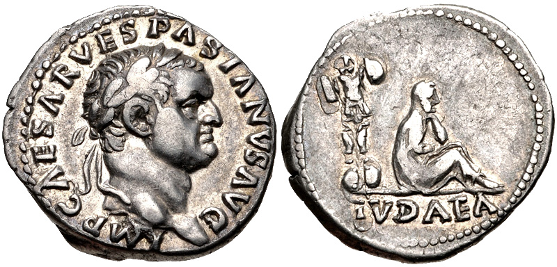 Vespasian. AD 69-79. AR Denarius (18mm, 3.27 g, 6h). “Judaea Capta” commemorative. Rome mint. Struck circa 21 December AD 69-early AD 70. Laureate head right / IVDAEA in exergue, palm tree; to right, Jewess, arms bound behind, seated right. RIC II 4; Hendin 1480; RSC 229. VF, lightly toned. (The Twelve Caesars in Silver)